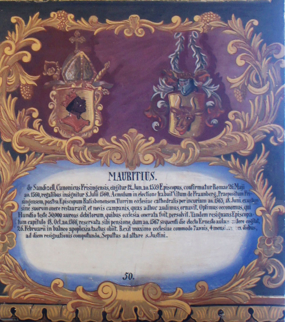 Wappentafel von Moritz von Sandizell, Fürstbischof von Freising, im Fürstengang zwischen Fürstbischöflicher Residenz und Freisinger Dom. Links das geistliche, rechts das persönliche Wappen, darunter ein lateinischer Text mit kurzer Biographie.